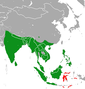 Asian Palm Civet (Paradoxurus hermaphroditus) range (green - native, red - introduced)